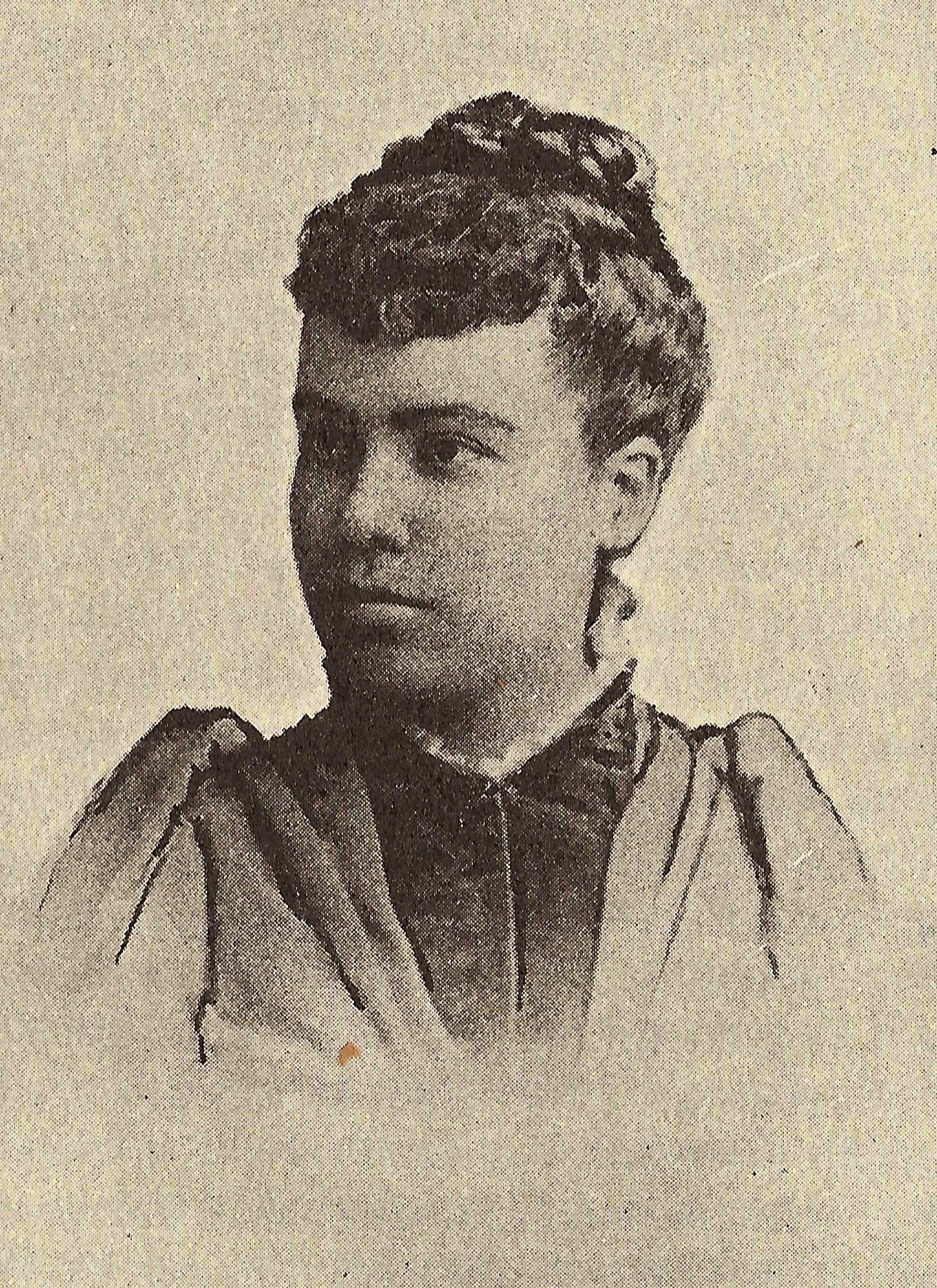 This portrait is found in the first novel of Emma Dunham Kelley, _Megda_, published in 1891.